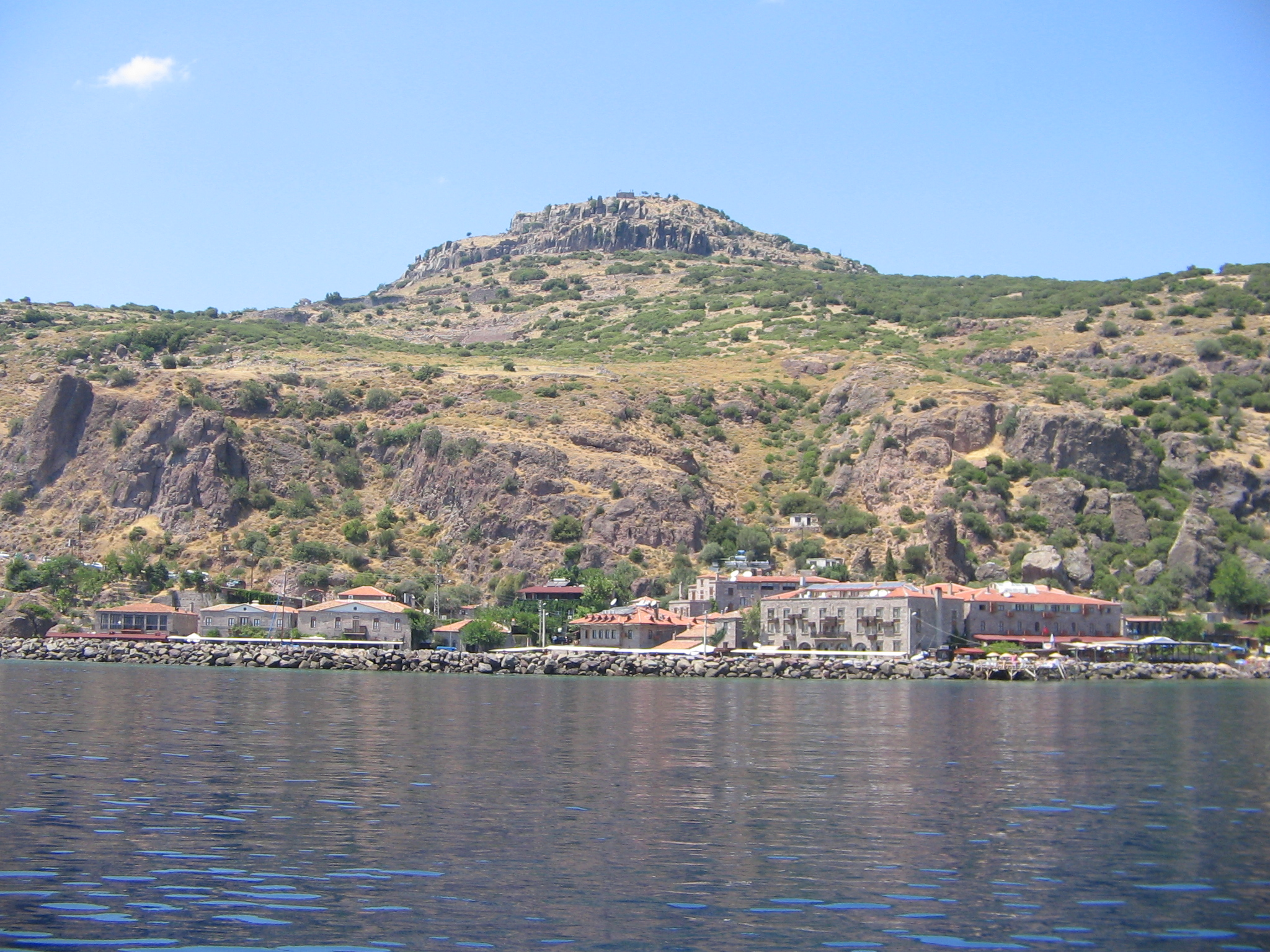 the acropolis of the old greek town of assos in turkey, view from the sea